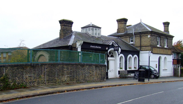 Former Osterley station